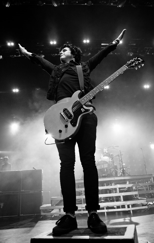 billie joe armstrong